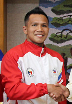 Charly Suarez